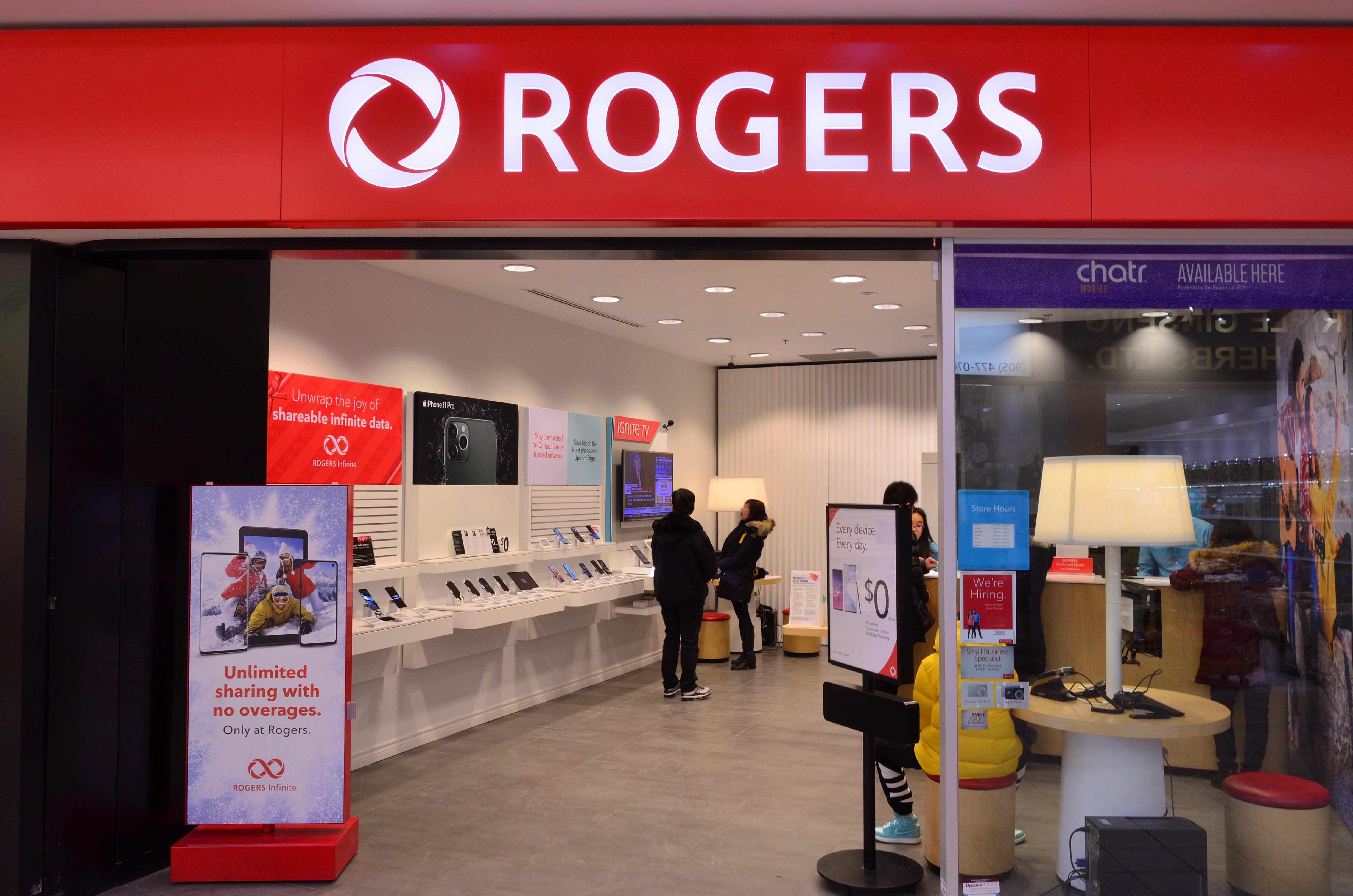 Rogers at First Markham Place